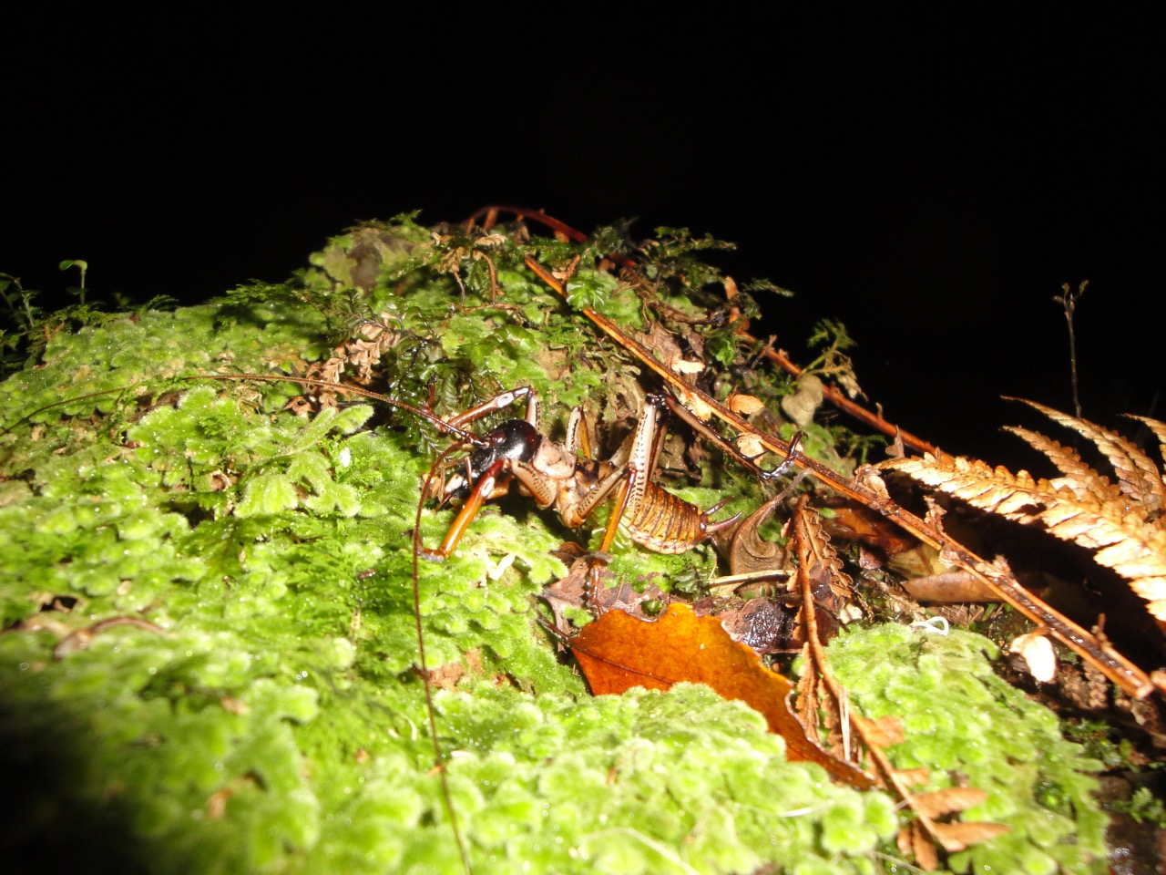 Endemic New Zealand tree wētā. A kind of cricket: Orthoptera, Ensifera, Anostostomatidae